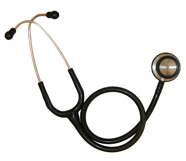 Stethoscope